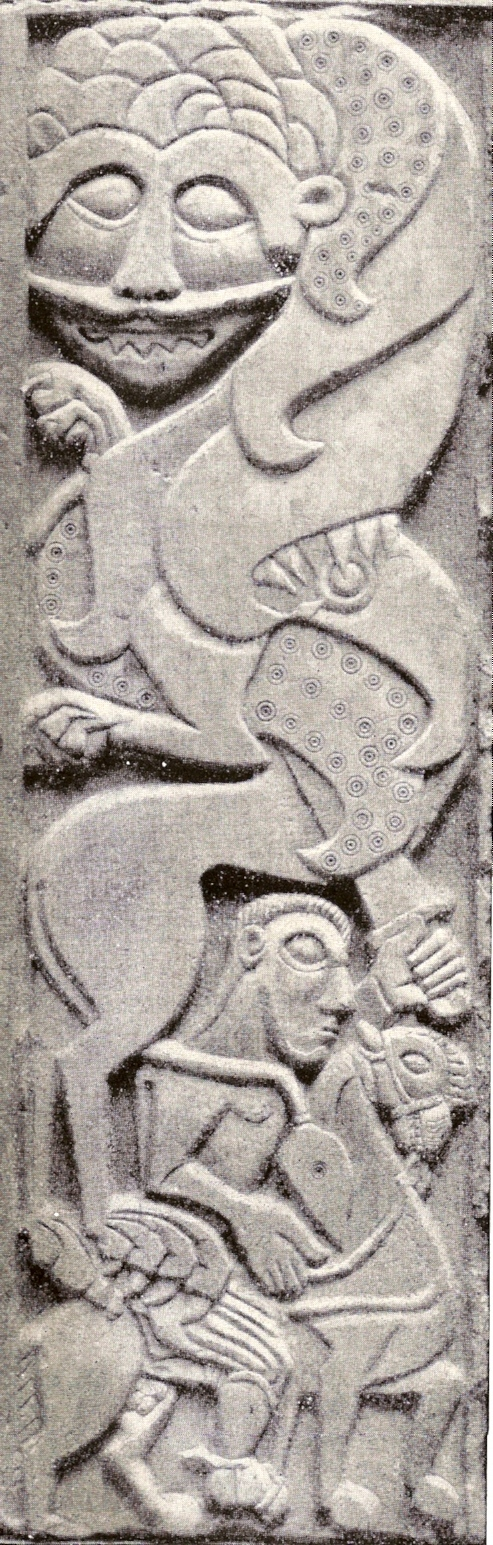 Carli - Dell'Acqua - Storia dell'Arte, 1967